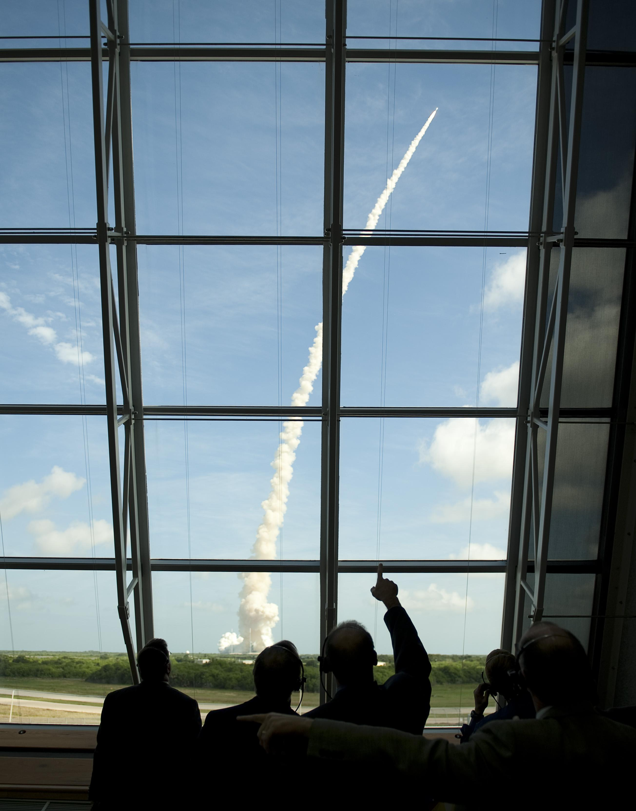 Mission managers watch as NASA's Ares I-X rocket launches from Launch Pad 39B at the Kennedy Space Centre in Cape Canaveral, Fla. The flight test will provide NASA with an early opportunity to test and prove flight characteristics, hardware, facilities and ground operations associated with the Ares I.